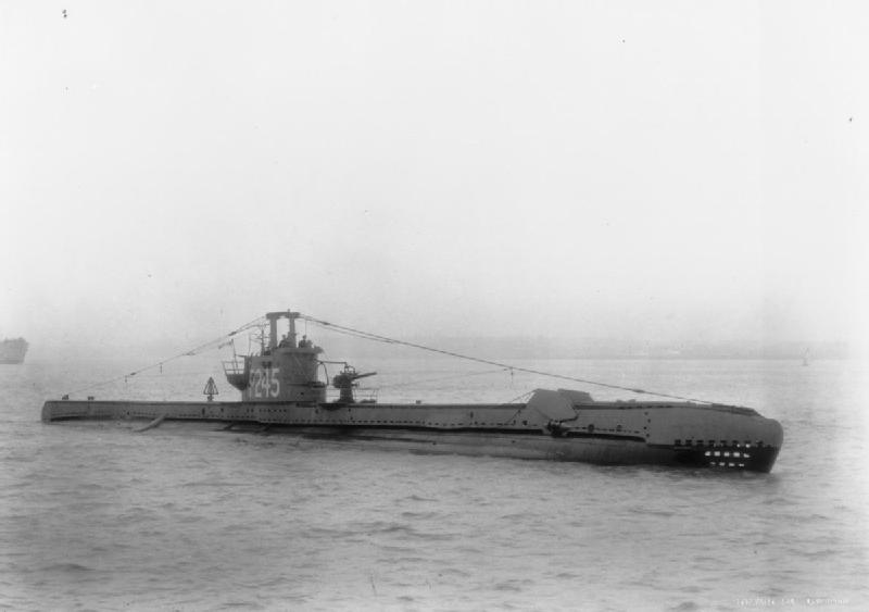 British S class submarine HMSM SPIRIT underway on completion on the Mersey.